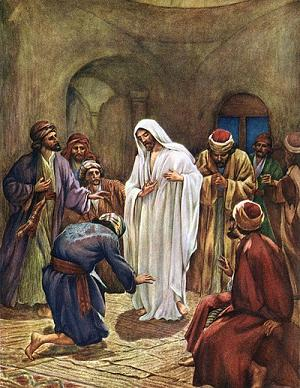 Jesus appears to the disciples (watercolour)